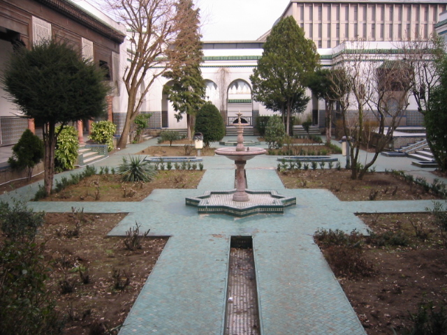 Courtyard Garden with fountain and tiled walkways, at the Mosque of Paris.